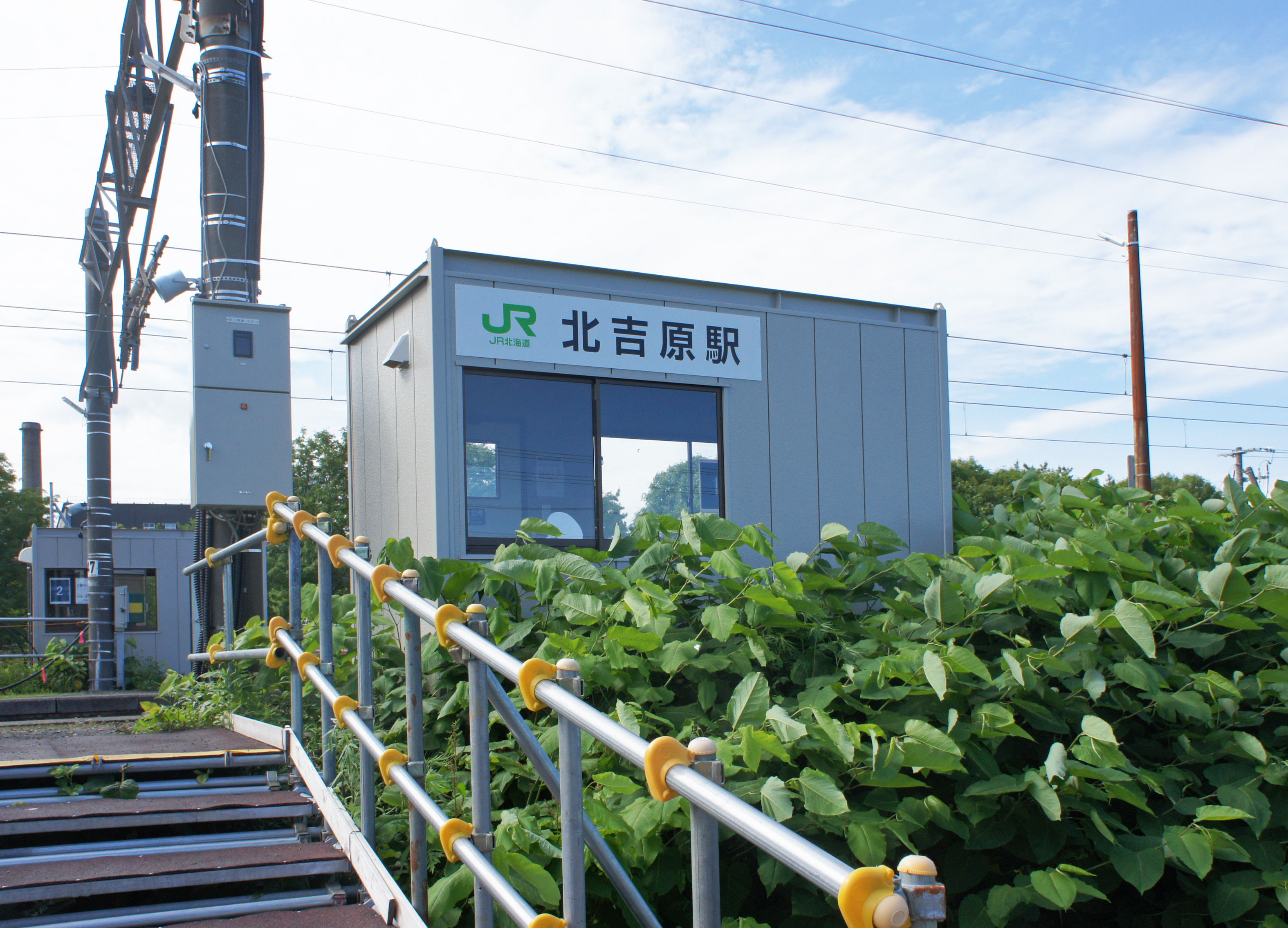 Temporary station building of JR Muroran-Main-Line Kita-Yoshihara Station Sony NEX-3 + E 18-55mm F3.5-5.6 OSS